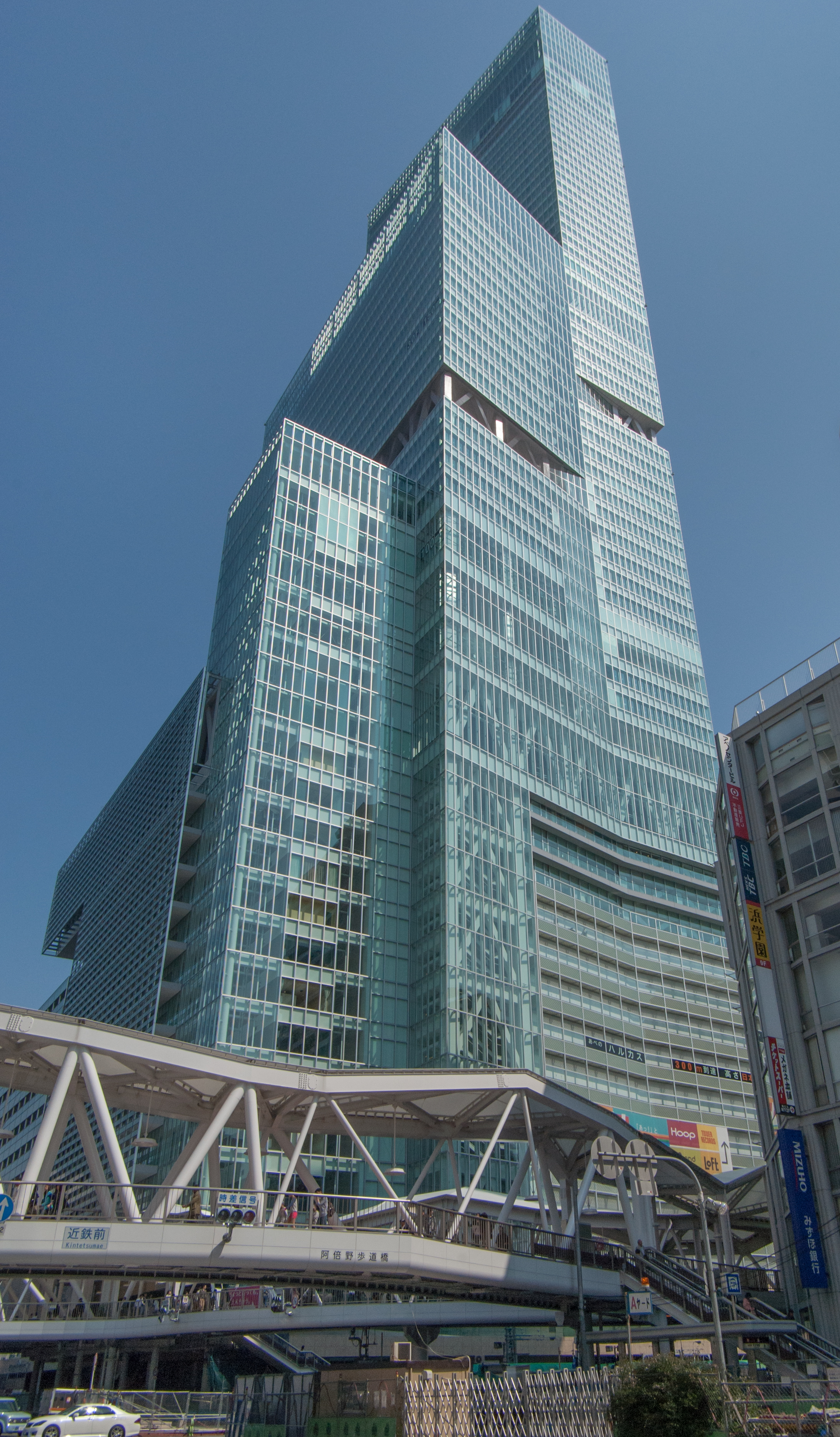 Photograph of the northwest view of "Abeno Harukas" building construction site, reconstruction of Abenobashi Terminal Building, in Abeno-ku, Osaka, Osaka Prefecture, Japan.